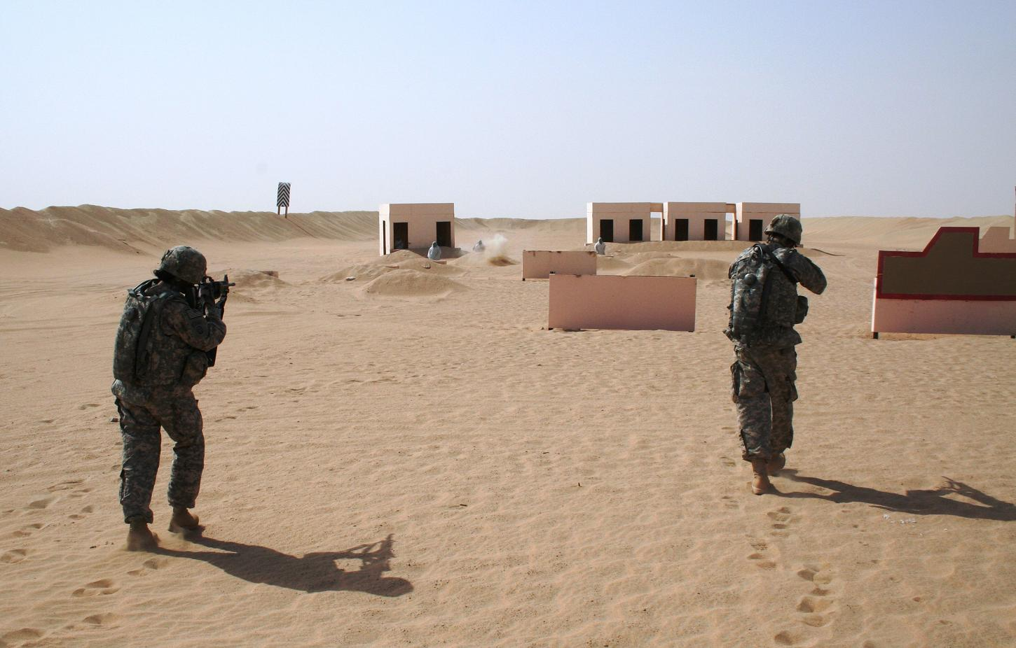 Sgt. Nancy Rodriguez (left), security analyst, Headquarters Headquarters Company, 25th Combat Aviation Brigade, and Spc. Jason Austin (right), heavy equipment operator, HHC, 25th CAB, approach an enemy compound in response to a simulated direct fire attack during live-fire rifle training outside of Camp Buehring, Kuwait, Sept. 18.